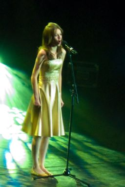 Crop of File:Faryl Smith BGT tour.jpg - Faryl Smith performing on the Britain's Got Talent Live tour